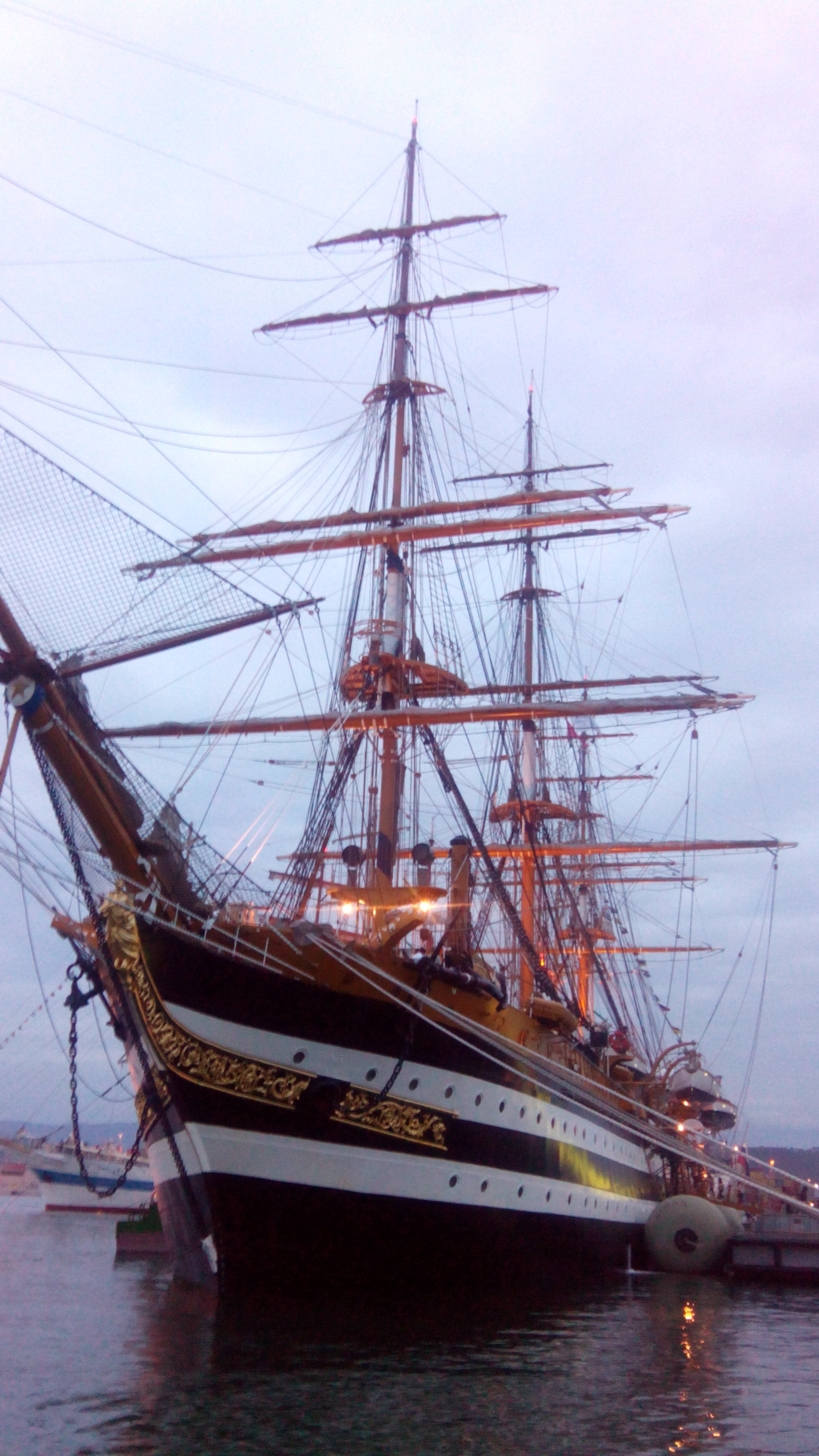 The Amerigo Vespucci Tall Ship at La Spezia, Italy (October 2013)